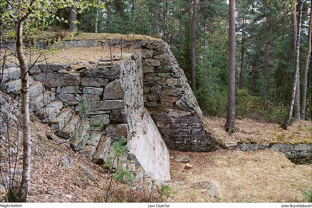 Detail from Høgaas battery,Fetsund,Norway. By tradition known as "Commanders position". (But is probably not)